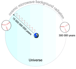 Drawn by Theresa knott